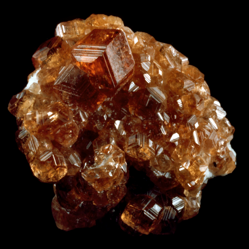 Garnet. Jeffery Mine, Quebec, Canada. Bureau of Mines, Mineral Specimens C\01687.